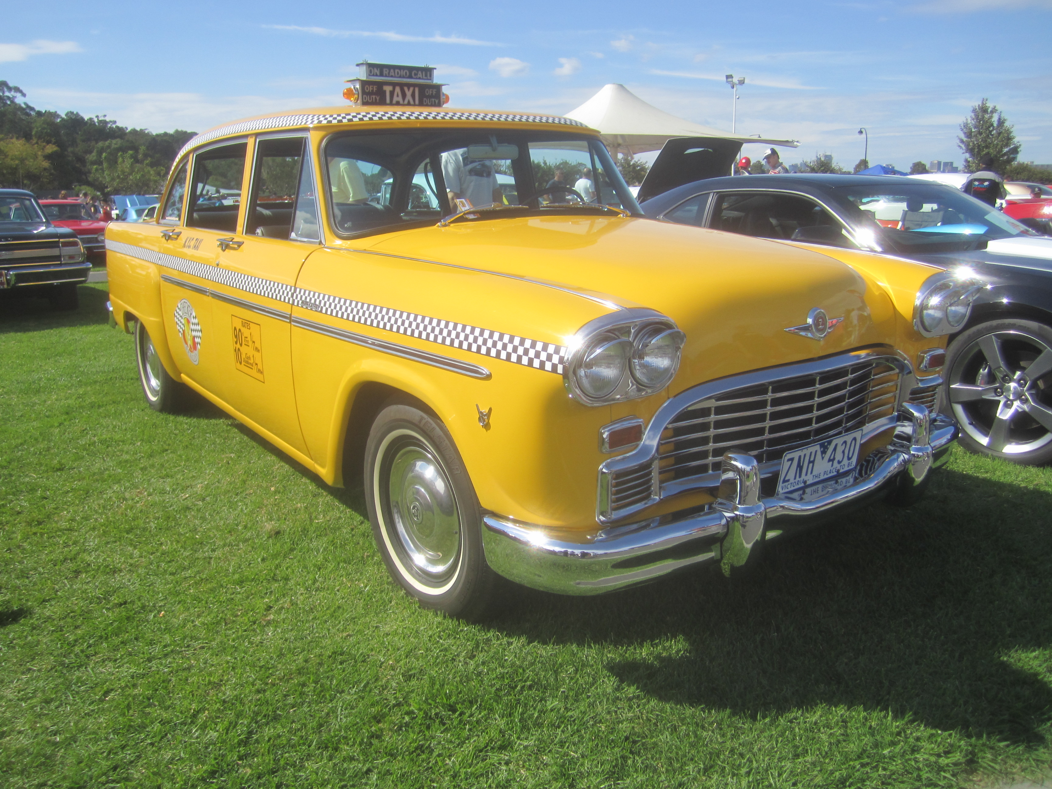 These cars, specially built for Taxis were built from 1956-82 by Checker Motors Coop. The 1st cars only had single headlights and a single bar grille. In 1958 the dual headlights were introduced and a egg crate grille. 1963 saw the indicators changed from clear to amber In 1968 round marker lights were added to the fender sides. In 1973, the chrome bumpers were replaced by larger aluminium coloured units.